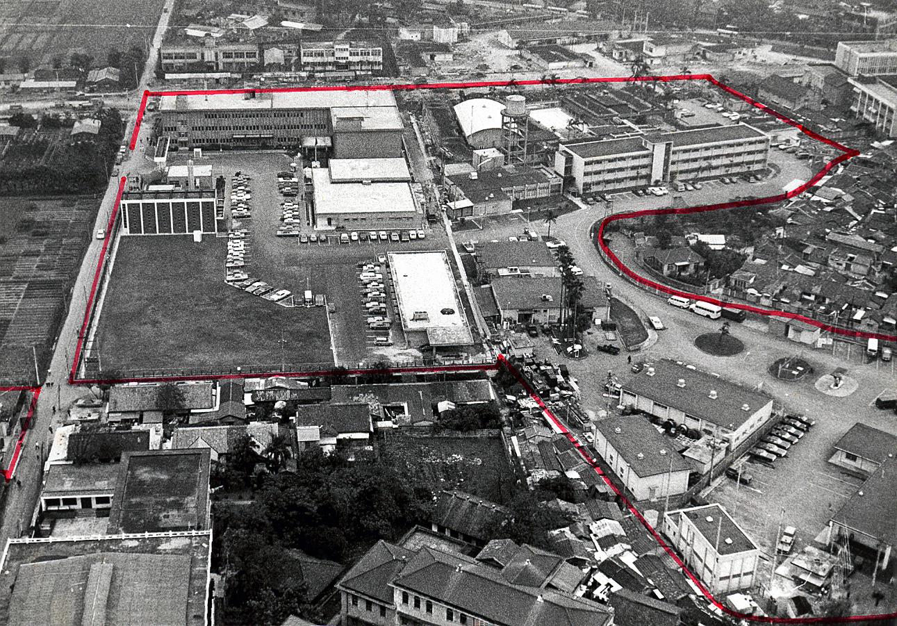 Taipei Air Station, Taipei, Taiwan, in 1975. Aerial view of new construction. "Old base" can be seen on top of photo. Red outline indicates footprint of the "new base." Taipei Air Station was located off Roosevelt Road, close to National Taiwan University, in Gongguan, southern Taipei, Taiwan.